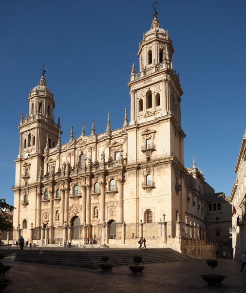 La catedral; Jaén, Andalucía, Jaén, Spain; fachada; ref: PM_090887_E_Jaen; ; Photographer: Paul M.R. Maeyaert; © Paul M.R. Maeyaert; ; Cultural heritage; Cultural heritage/Baroque; Cultural heritage/Cathedral; Cultural heritage/Classicism; Europeana; Europe/Spain/Jaén